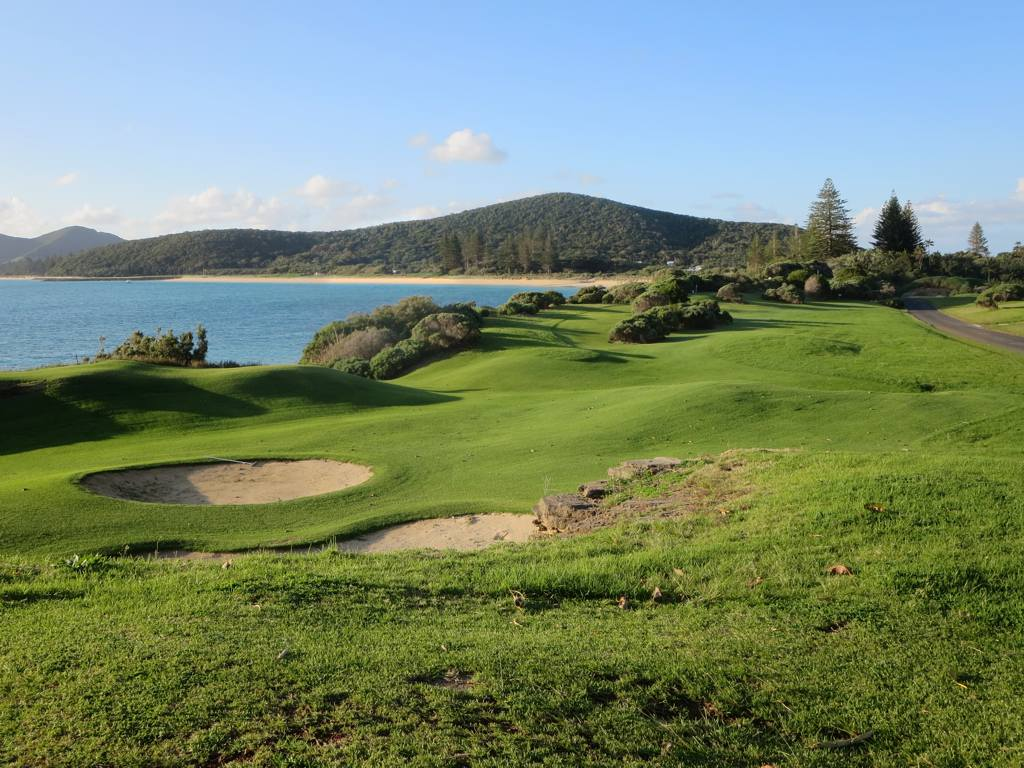 Lord Howe Golf Course There's a nine-hole golf course south of the airport on Lord Howe Island, NSW, Australia.